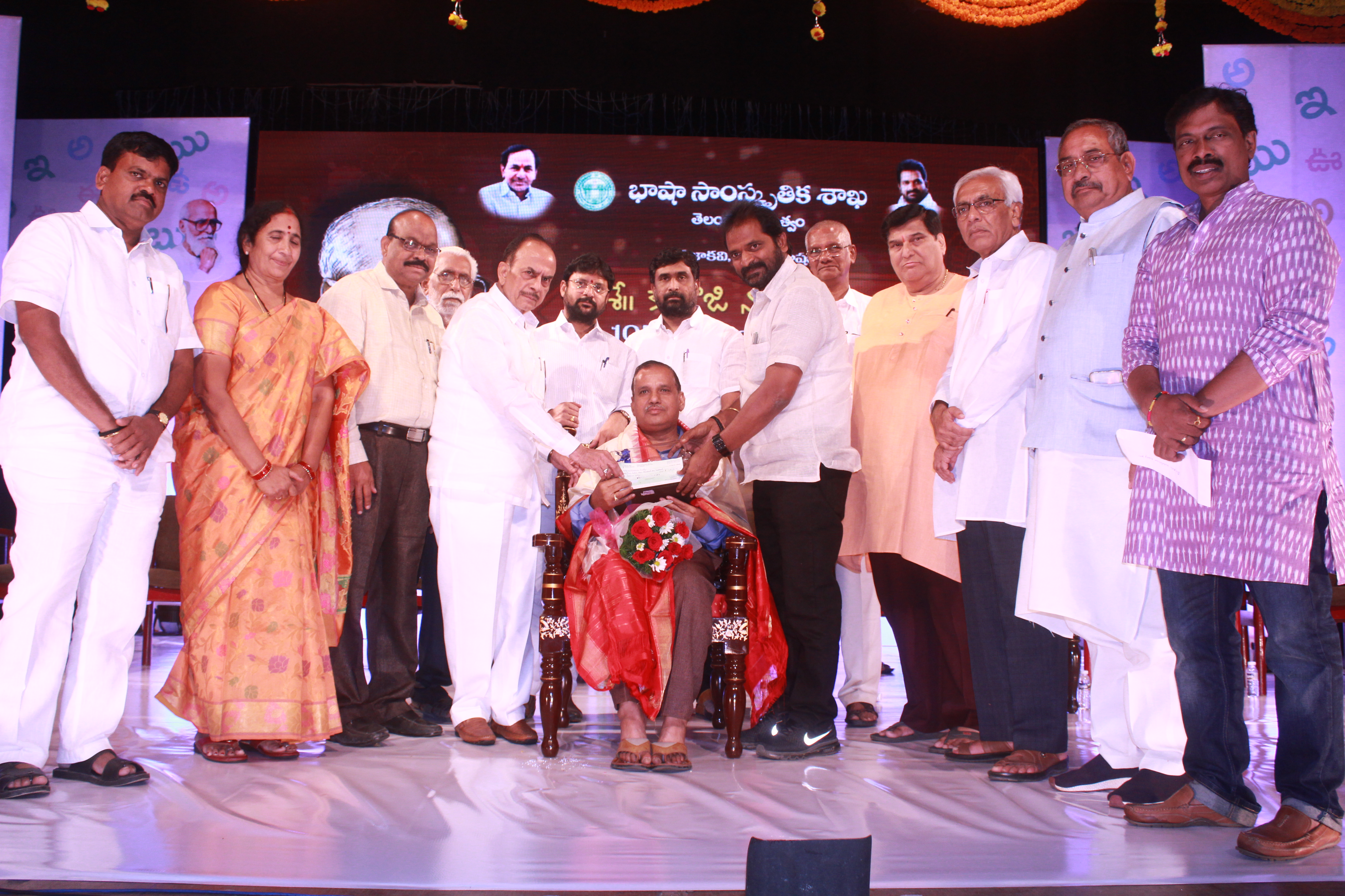 కాళోజి నారాయణరావు పురస్కారాన్ని ప్రముఖ కవి కోట్ల వెంకటేశ్వర్ రెడ్డికి అందజేసిన రాష్ట్ర సాంస్కృతిక శాఖ మంత్రి శ్రీ.వి.శ్రీనివాస్ గౌడ్